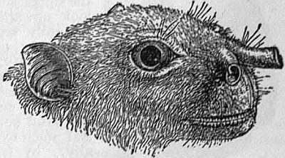 Head of Papuan Tube-Nosed Bat, Chiroptera from 1911 Encyclopædia Britannica